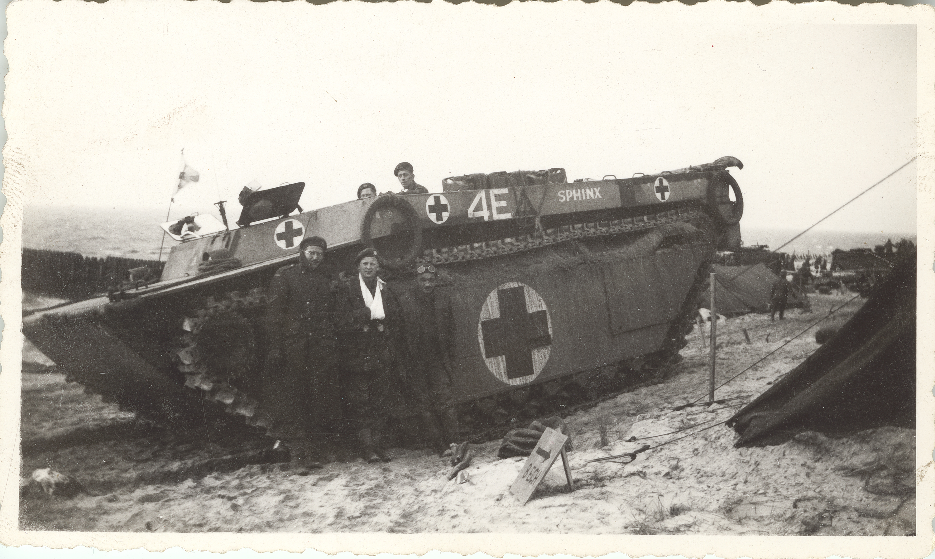 Alligator tank used by the Royal Canadian Army Medical Corps for transporting wounded soldiers during the Battle of the Scheldt, Netherlands, 1944. From the Donald Carson fonds, PR2011.0001/3.